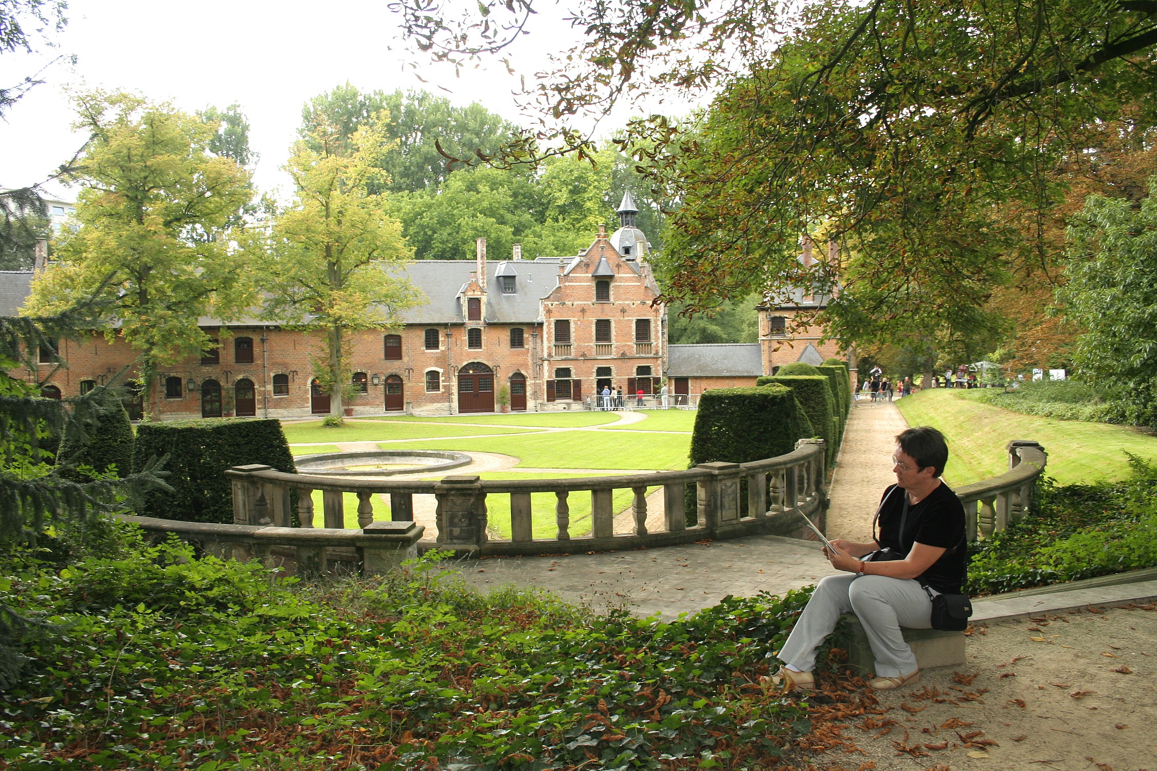 Auderghem (Belgium), the Val Duchesse « priory » .